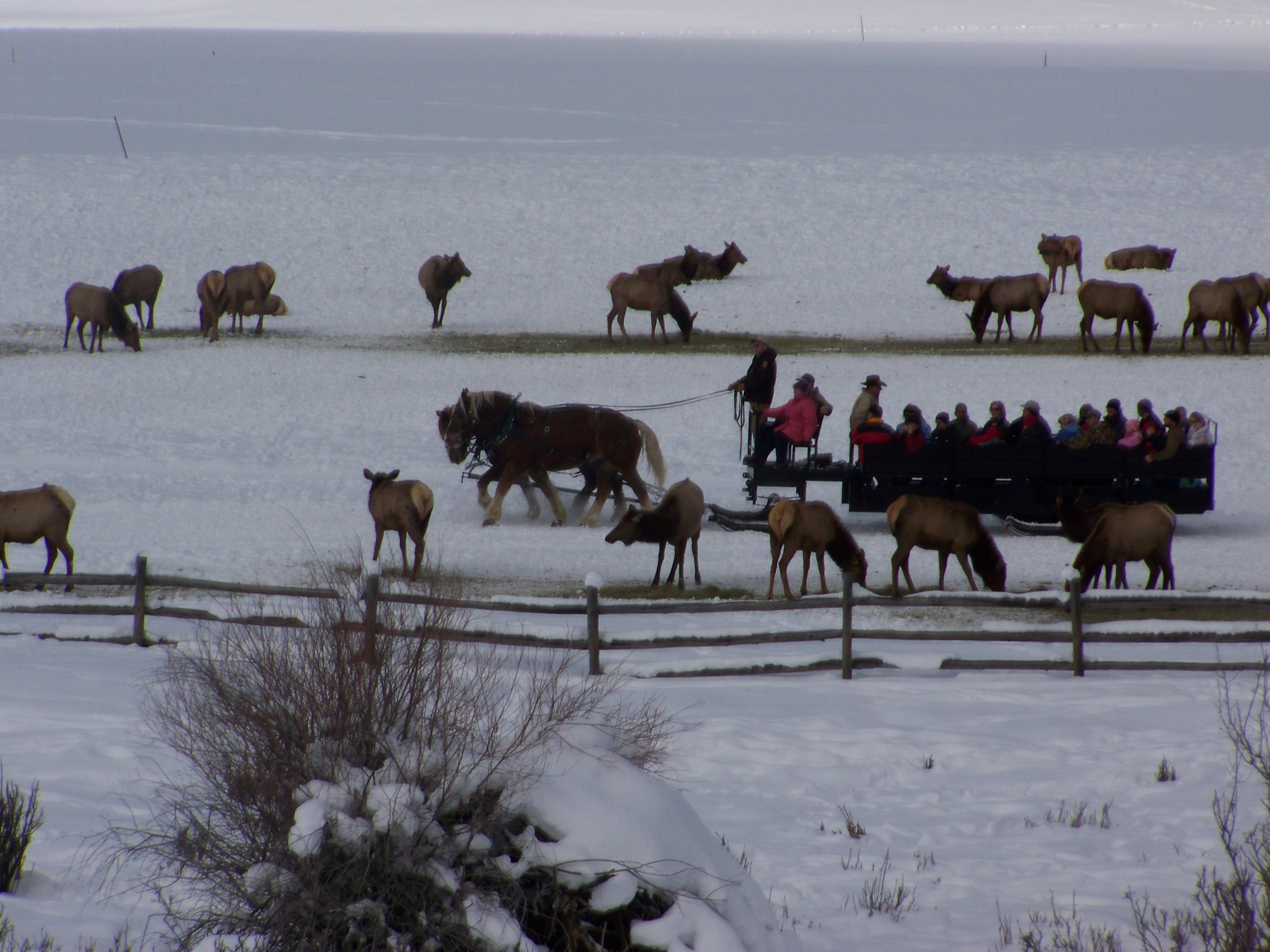 Sleigh ride through elk herd at Hardware Ranch Hardware Ranch, Hyrum, Utah, US Sleigh ride through elk herd at Hardware Ranch